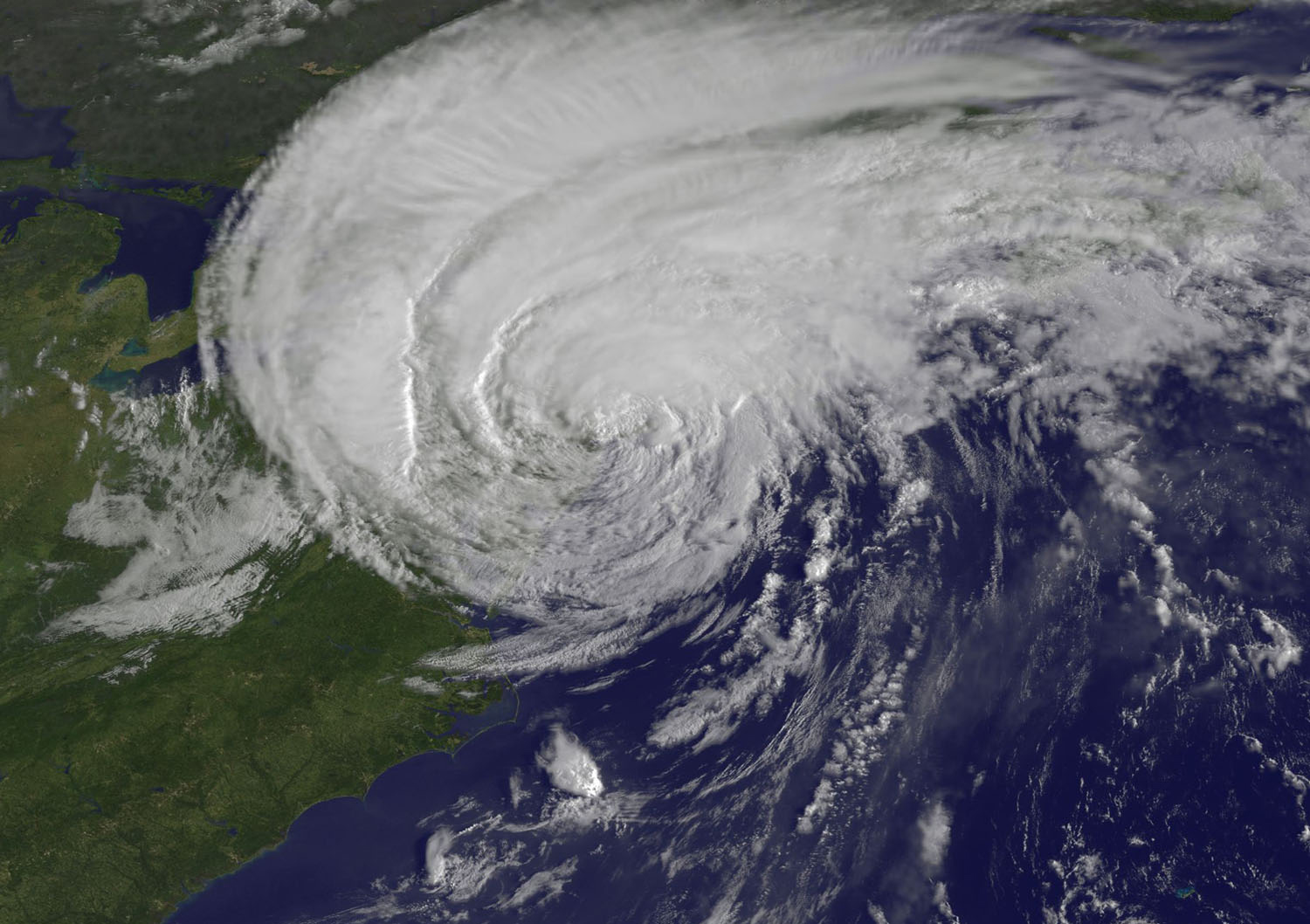 The GOES-13 satellite captured this stunning visible image of Hurricane Irene at 8:32 a.m. EDT, just 28 minutes before Irene's landfall in New York City. The image showed Irene's huge cloud cover blanketing New England, New York and over Toronto, Canada. Shadows in Irene's clouds indicate the bands of thunderstorms that surround now tropical storm Irene. (Credit: NASA/NOAA GOES Project)